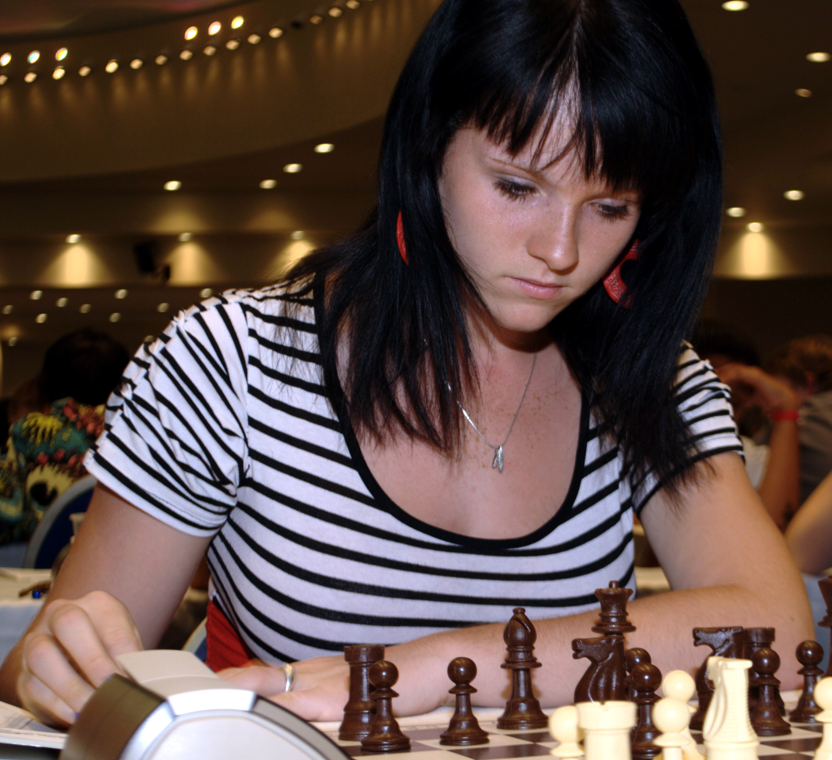 Kinga Zakościelna, World Youth Chess Championship, Porto Carras 2010.